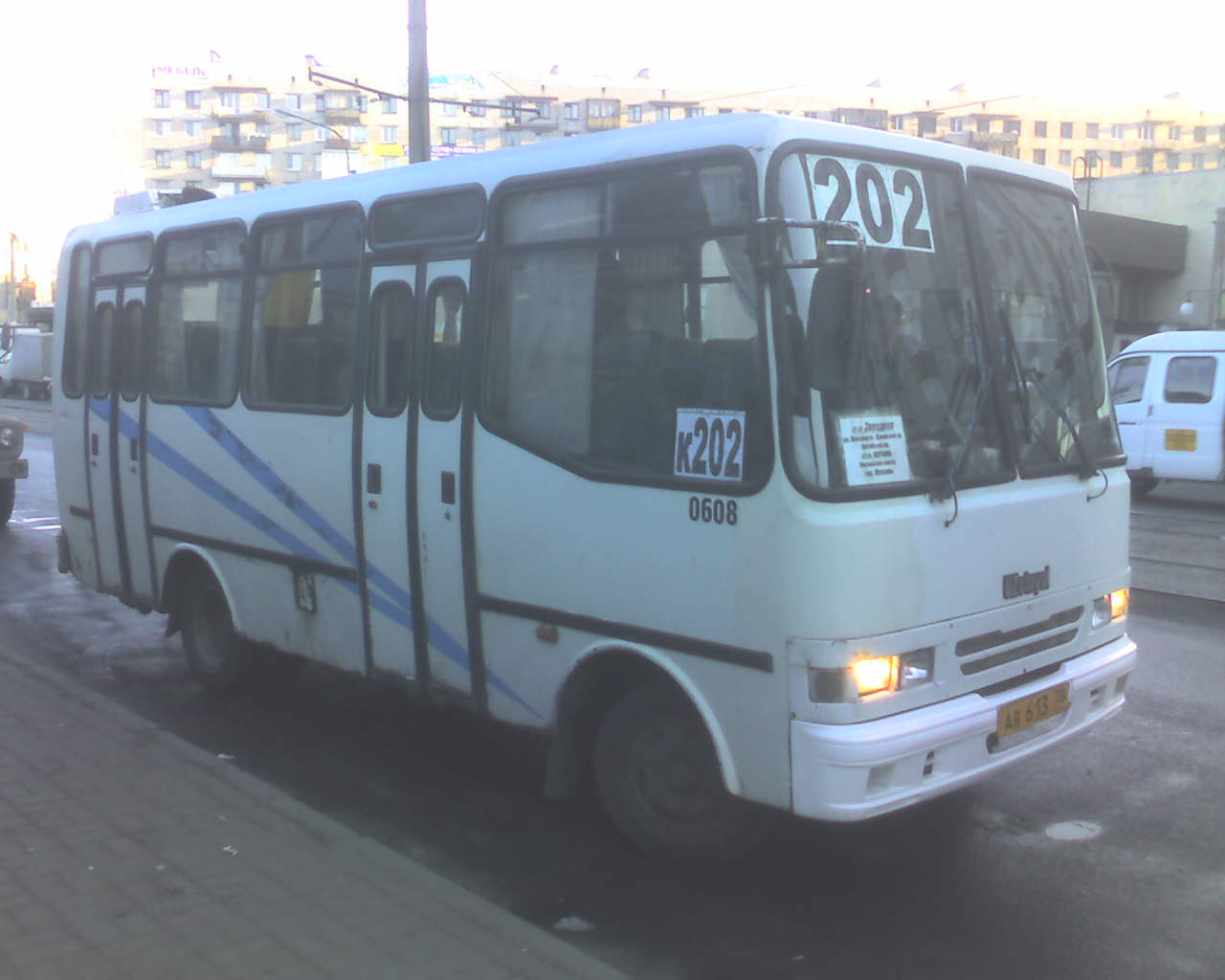 UZotoyol M23HD bus (#0608) in Saint Petersburg, Russia.